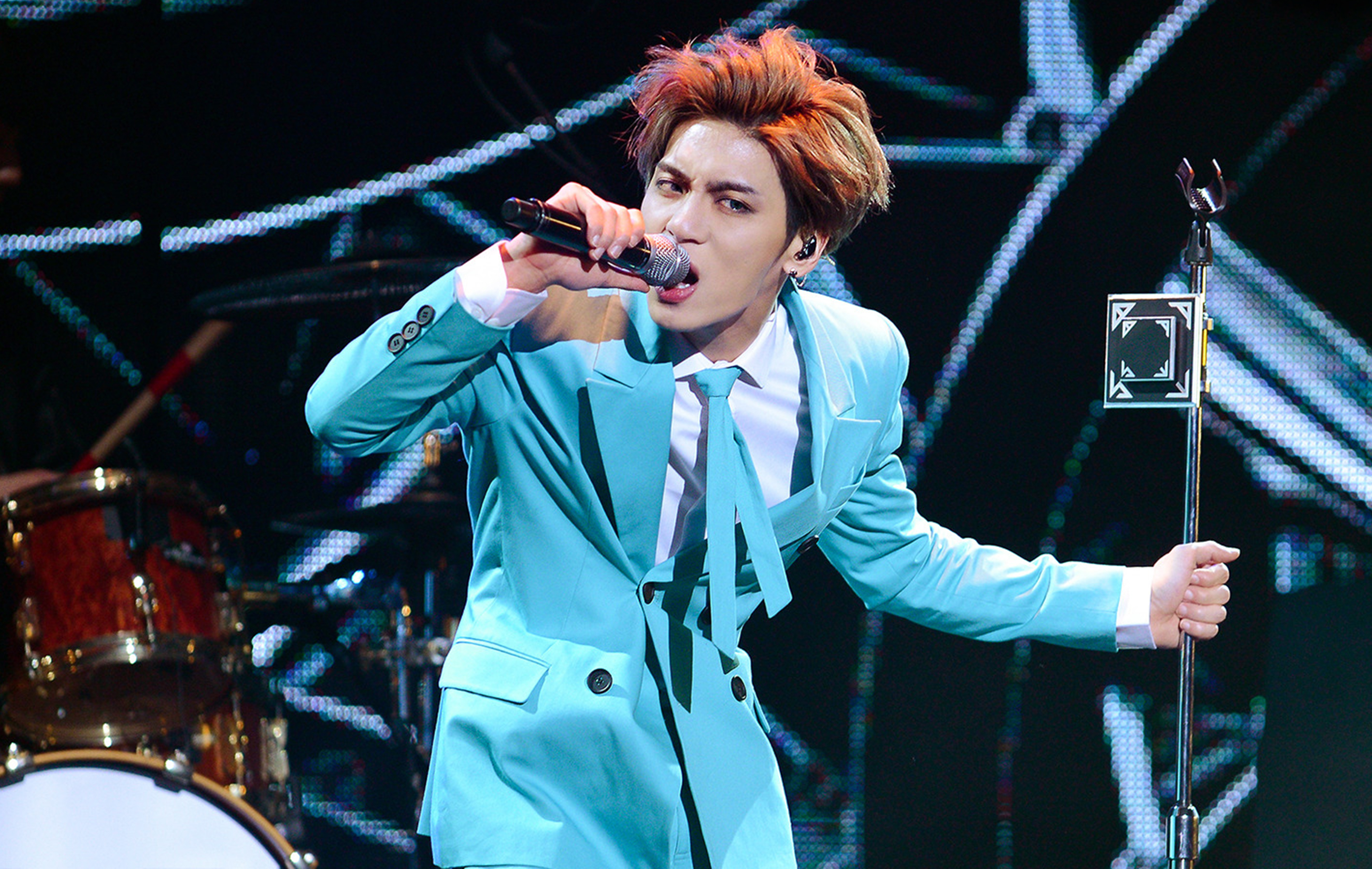 Kim Jong-hyun during the showcase of the album Base, on January 8, 2015.